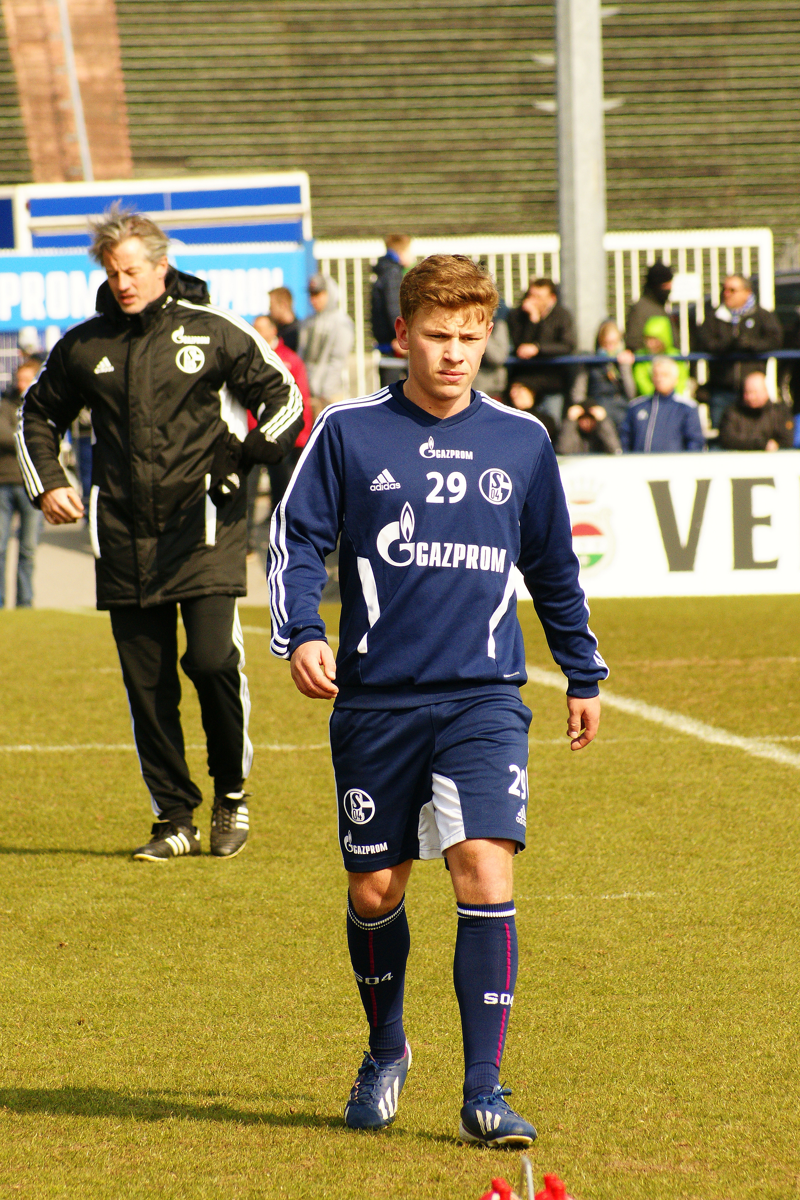 Max Meyer during training in August 2013.